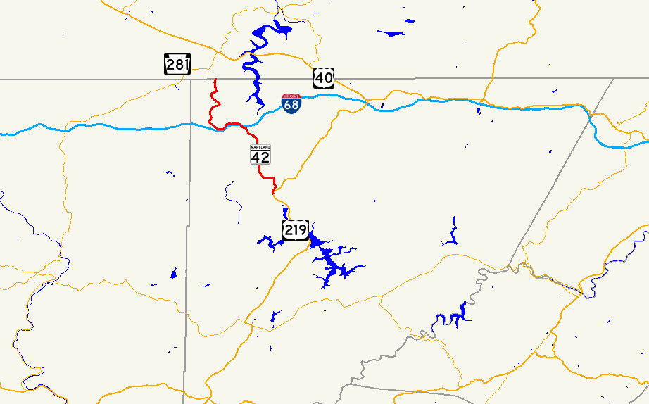 Map of MD Route 42